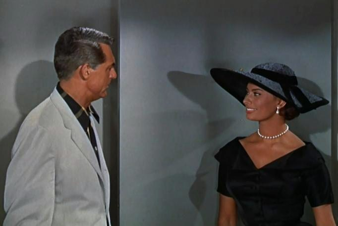 Cary Grant & Sophia Loren in Houseboat - trailer (cropped screenshot)